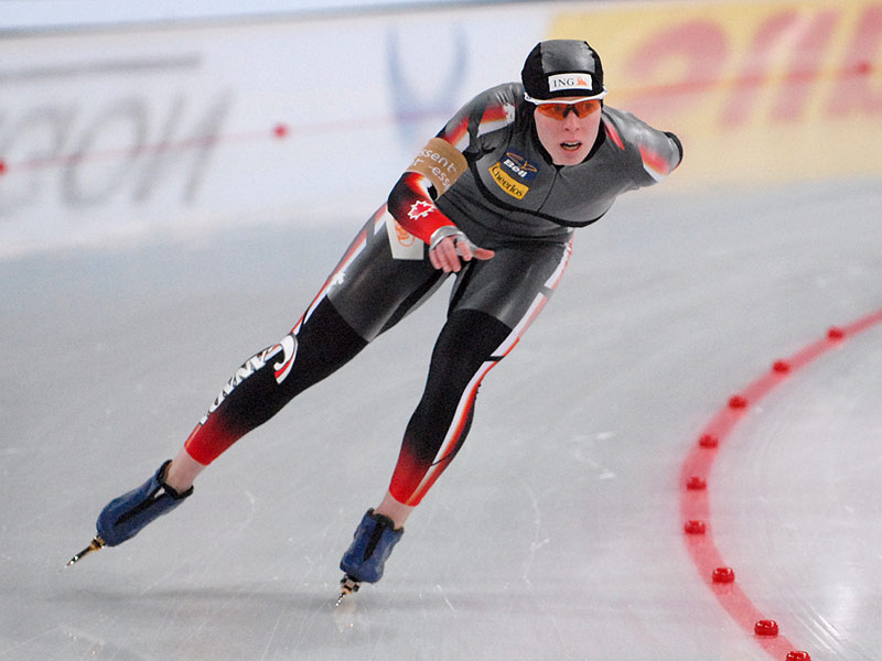 Christine Nesbitt at the 2008 World Cup in Hamar.